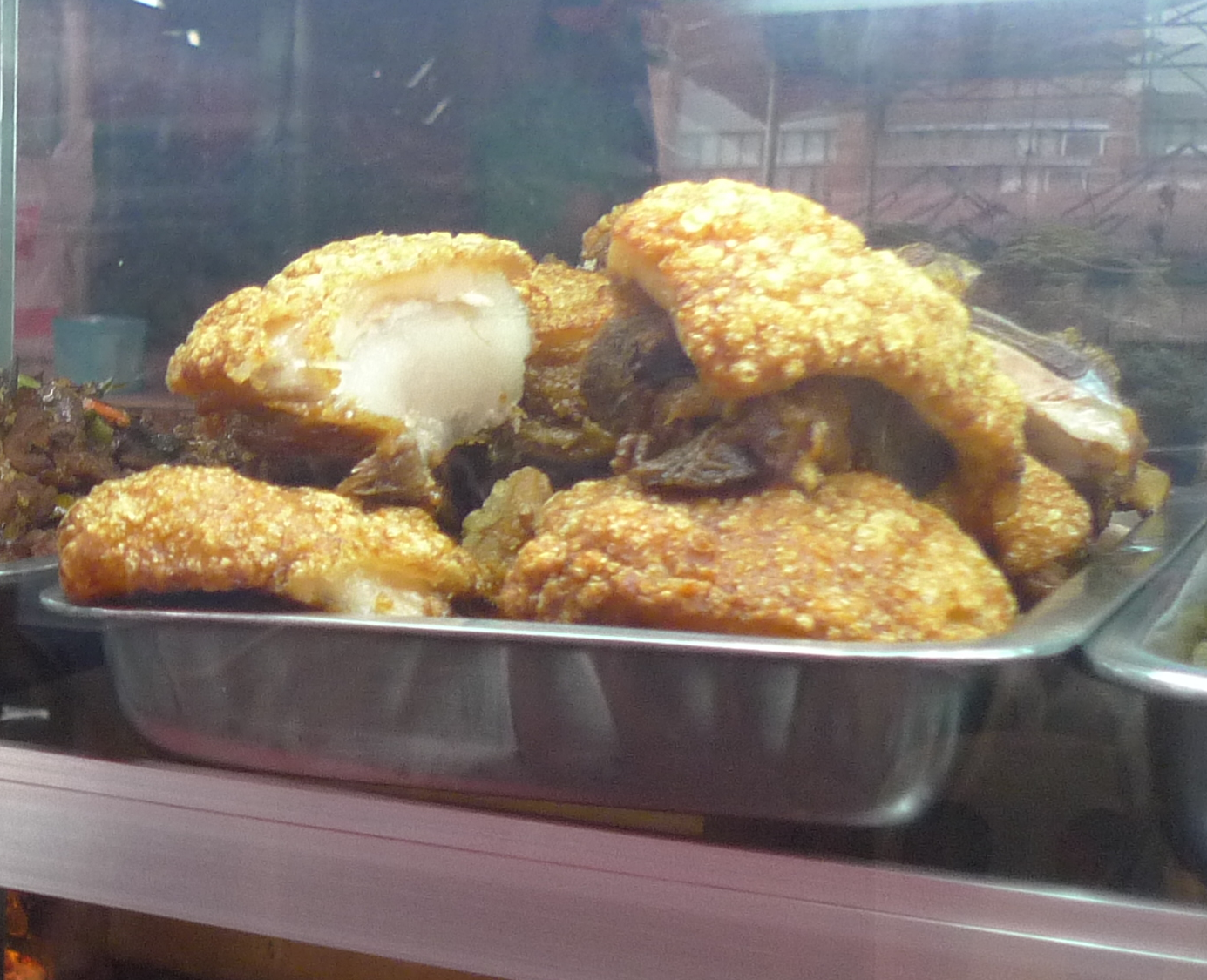 Cropped image of File:Laoag Dap-Ayan to Ilocos Norte - Bagnet.jpg. For use in article infobox